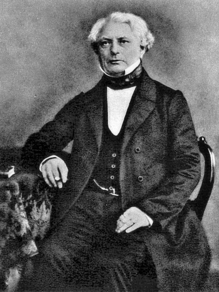 Johann Wilhelm Kampf (* 1799 at Elberfeld; † August 10, 1875 at Hilden), with Johann Christian Spindler (1801–1881), in 1832 co-founder of Messrs. Kampf & Spindler at Elberfeld